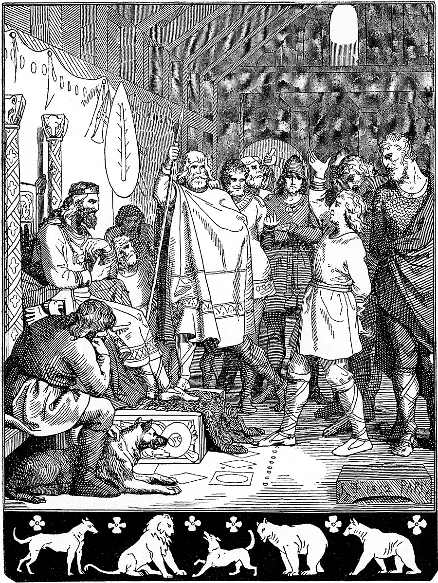 Lorenz Frølich. 1856. Wigg is taken for Hiartuar.